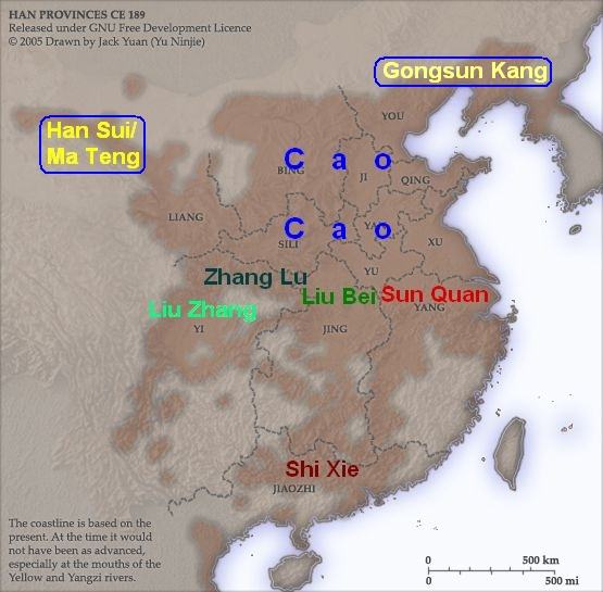 map showing the places of China's Warlord on the eve of the Three Kingdoms period.